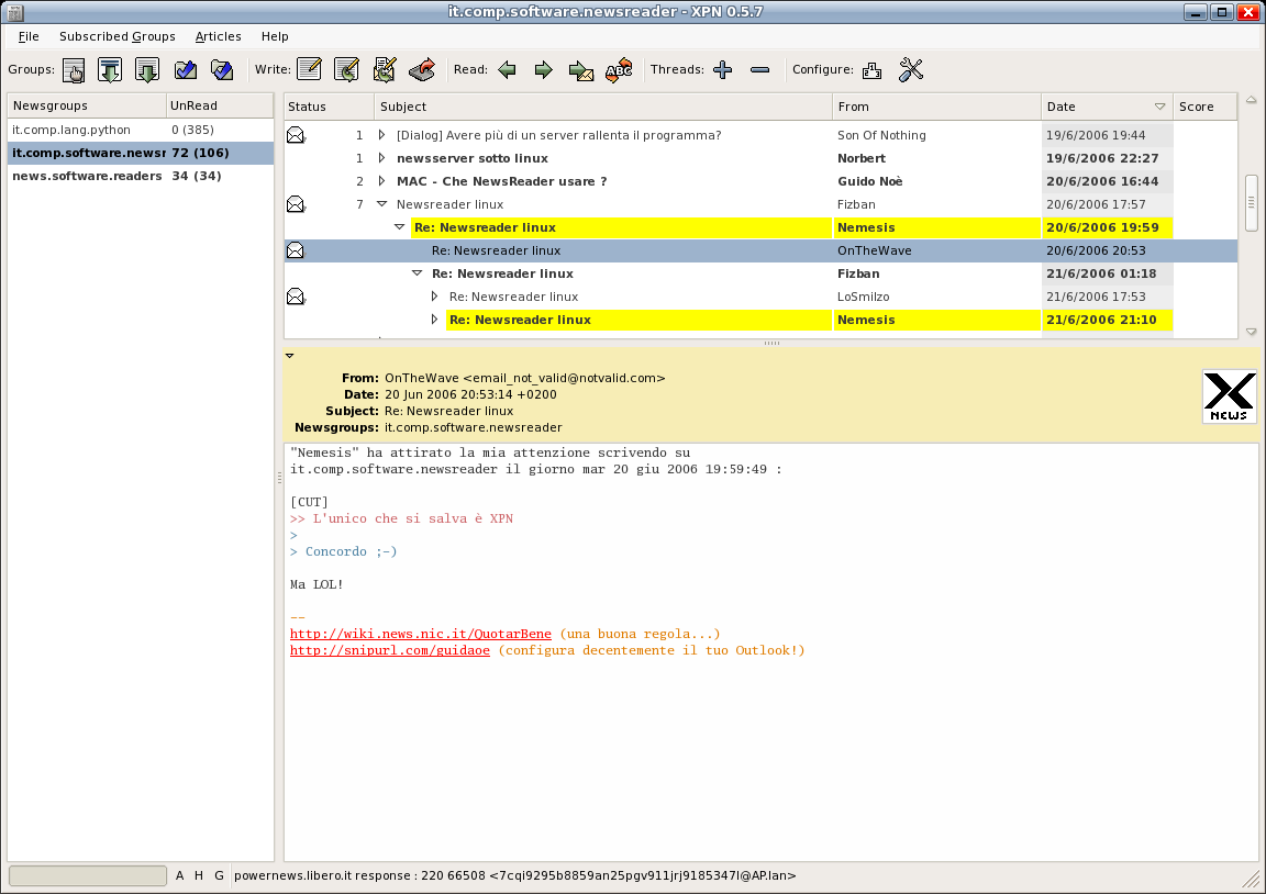 XPN Newsreader ScreenShot